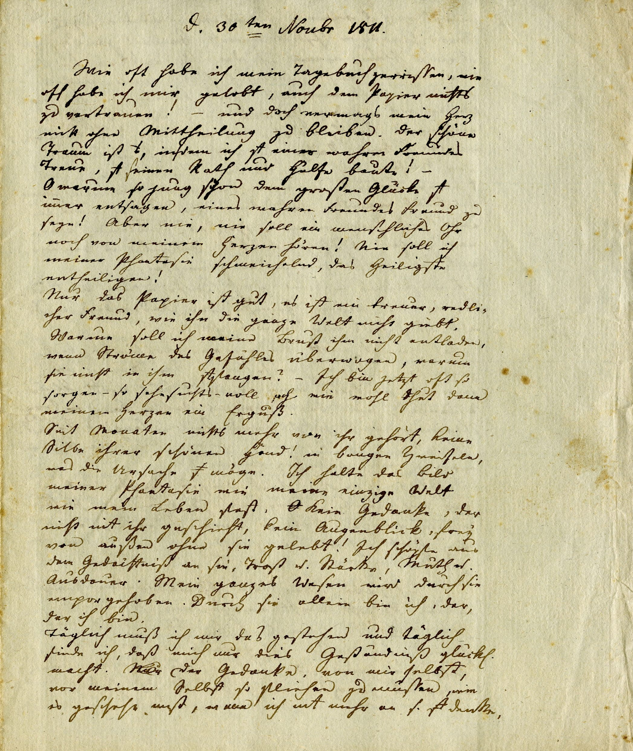 First page of the personal diary from Carl Friedrich Philipp von Martius, scanned in the Martius Staden Institut in 2015.